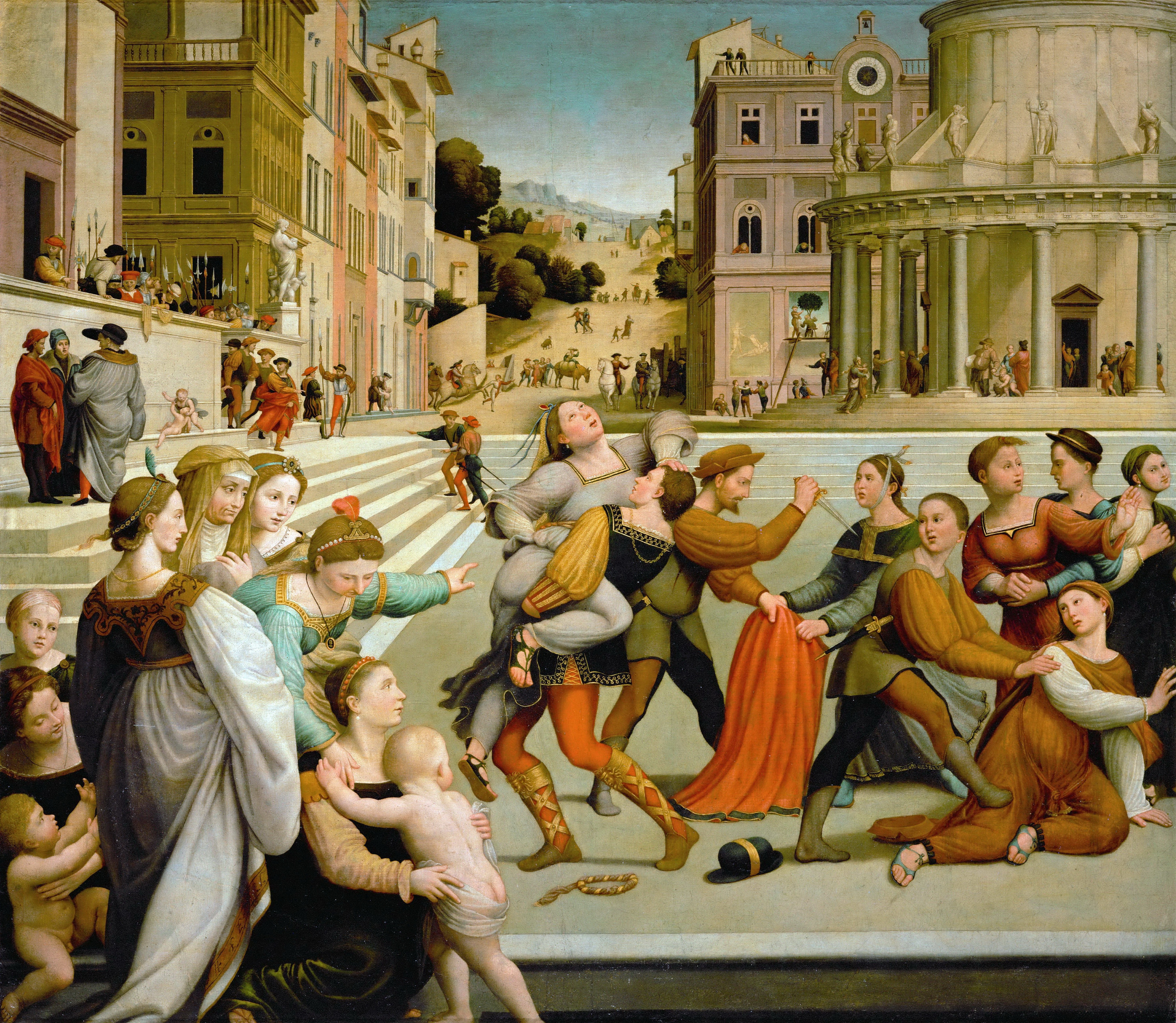 Rape of Dinah